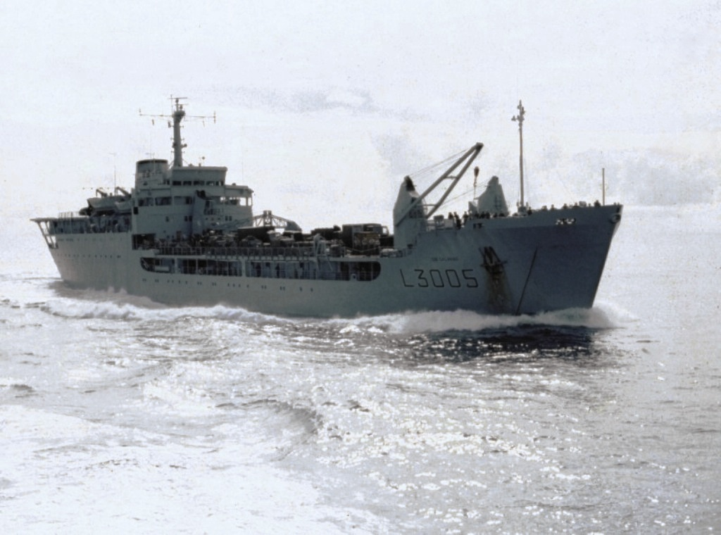 RFA Sir Galahad proceeding south